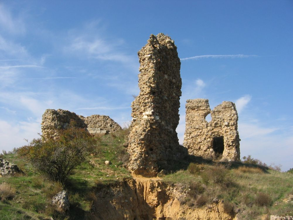 Castillo de Saldaña